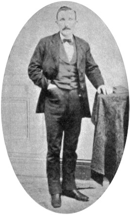 Albert C. Richardson, first mate of Mary Celeste